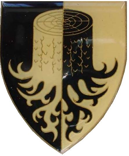 SADF era Rustenburg Commando emblem